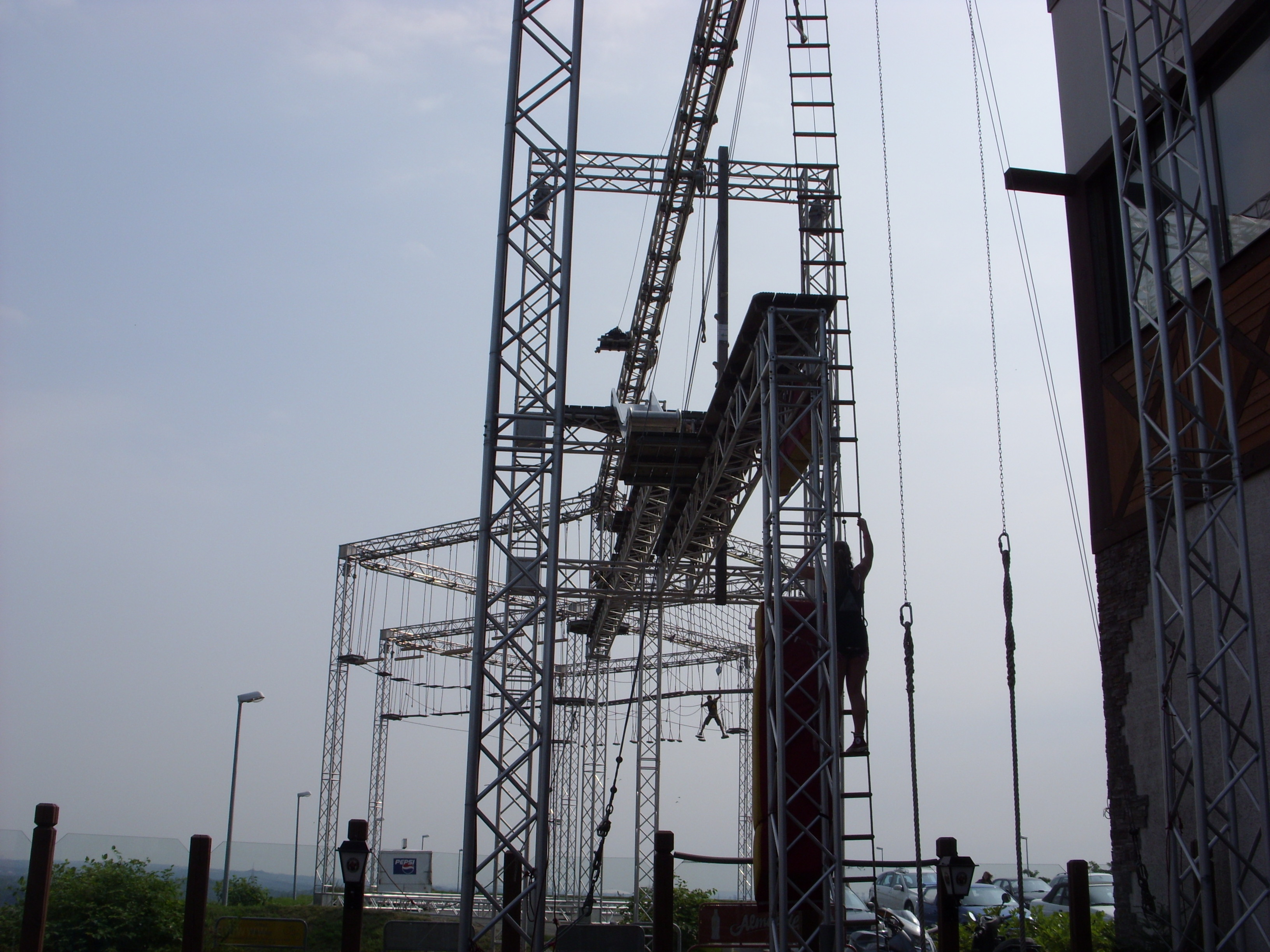 Bottrop (North Rhine-Westphalia, Germany) – Alpincenter – climbing garden